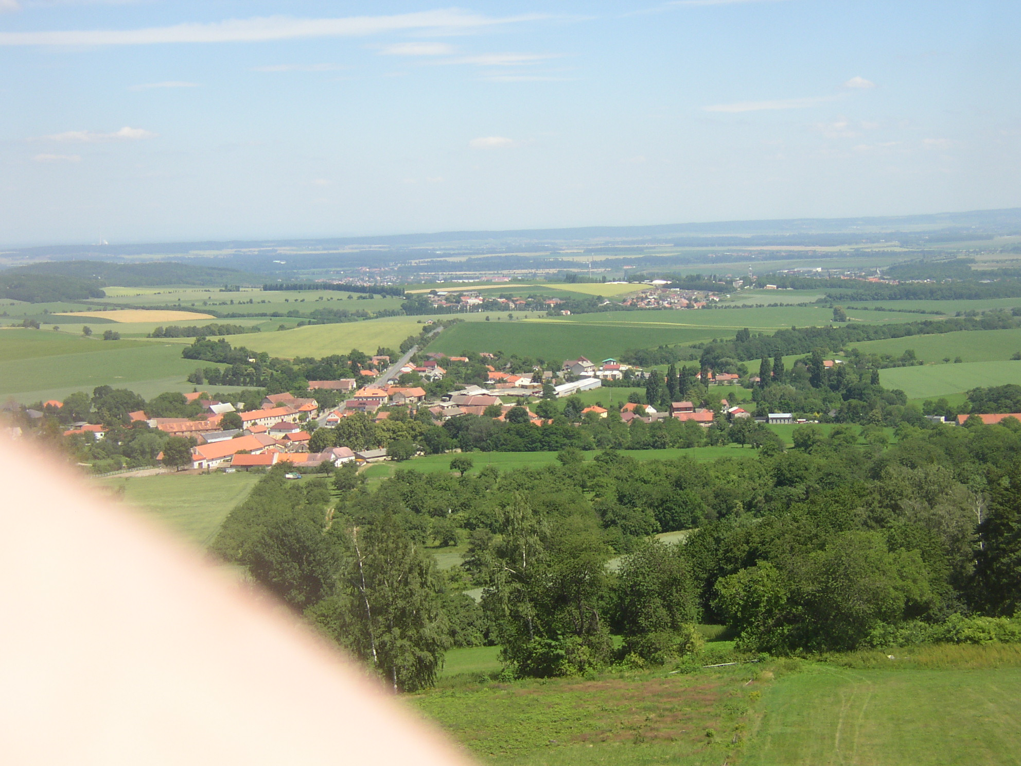 Village of Miskovice, Kutná Hora District, Czech Republic as seen from Vysoká lookout tower.